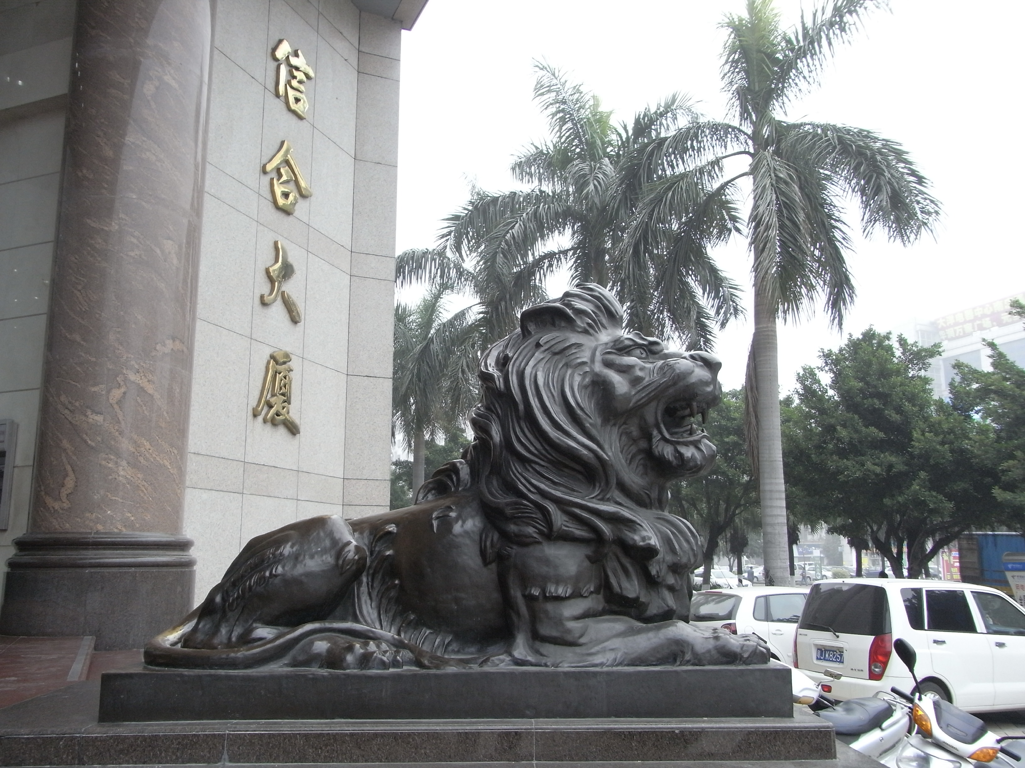 新會 中心南路 獅子zh:塑像 銅像